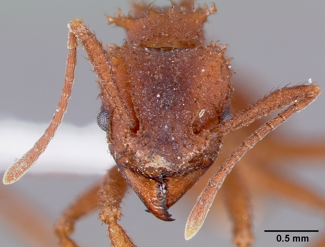 Head view of ant Trachymyrmex arizonensis specimen casent0000334.